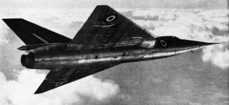 The first Fairey Delta 2 (s/n WG774) in flight. The Fairey Delta 2 or FD2 (internal designation Type V within Fairey) was a British supersonic research aircraft produced by the Fairey Aviation Company in response to a specification from the UK Ministry of Supply for investigation into flight and control at transonic and supersonic speeds.